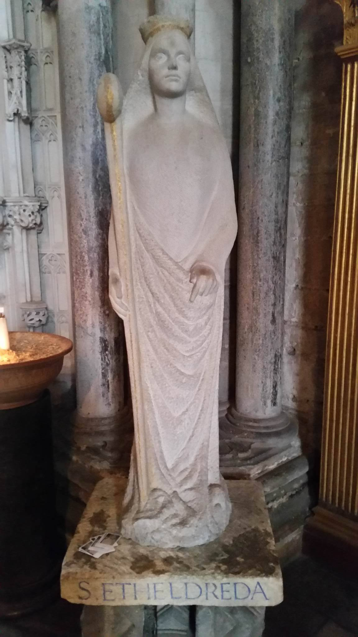 St. Etheldreda